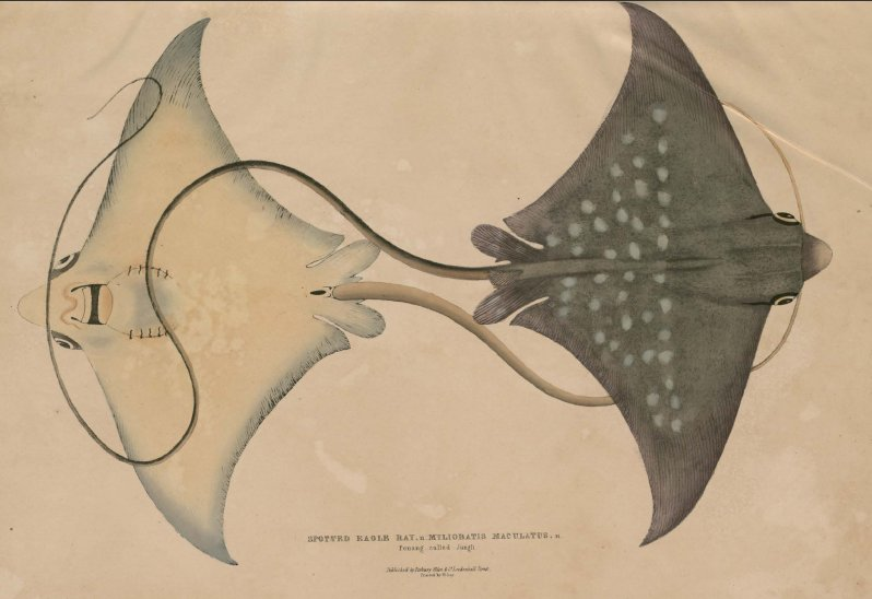 Spotted eagle ray Miliobatis maculatus (=Aetomylaeus maculatus)